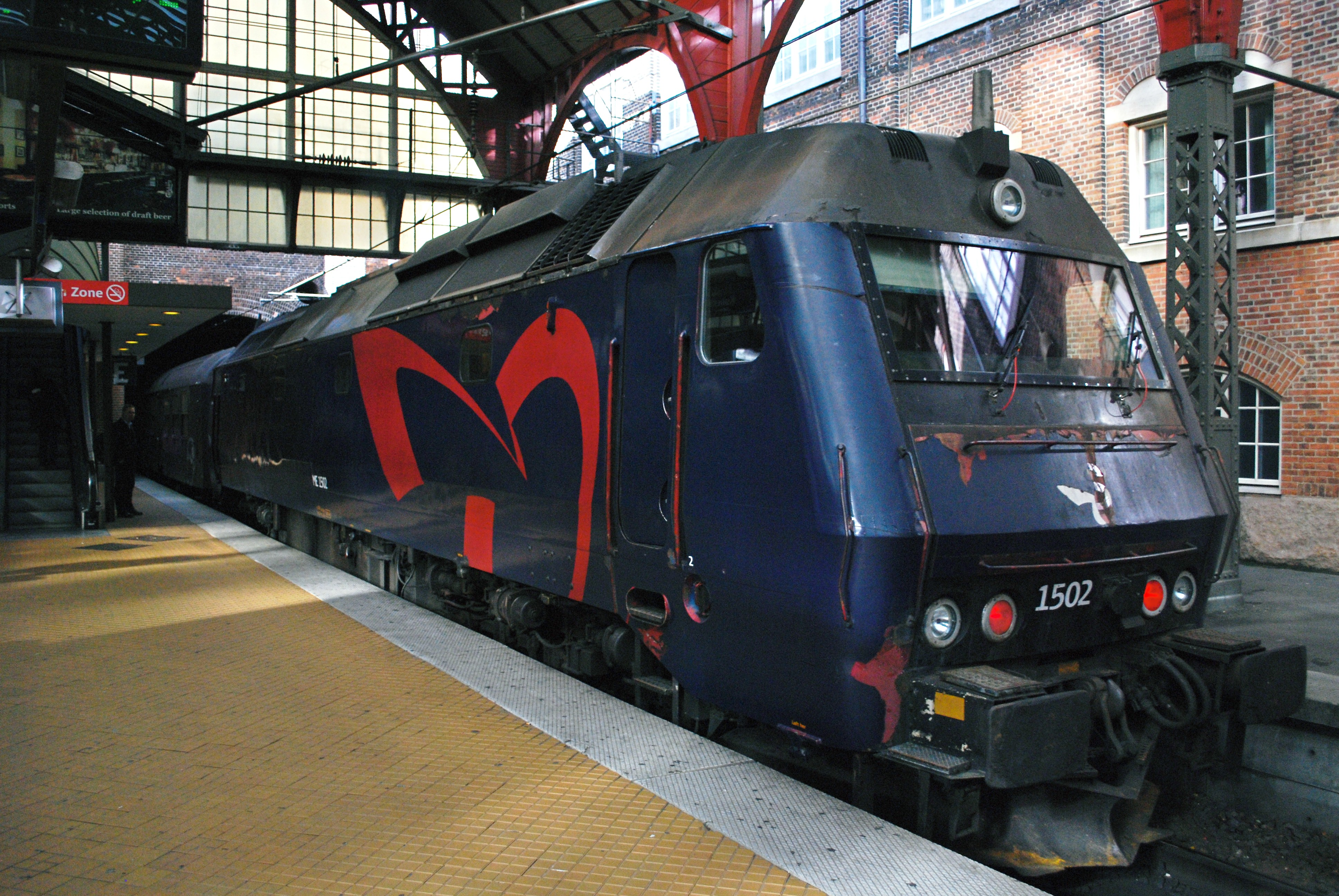 DSB Thyssen-Henschel/Scandia 3,040 hp Class "ME" Bo-Bo diesel electric with GM16-645-E3B engine, No.1525 fitted for push-pull Inter City and outer suburban working on a latter service at Kobenhavn Station, 10/09.